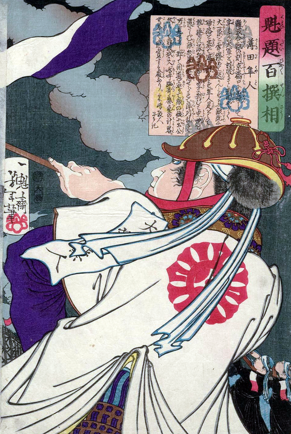 Susukida Hayato, from the series One Hundred Types Selected by Yoshitoshi (Kaidai hyakusen sô)